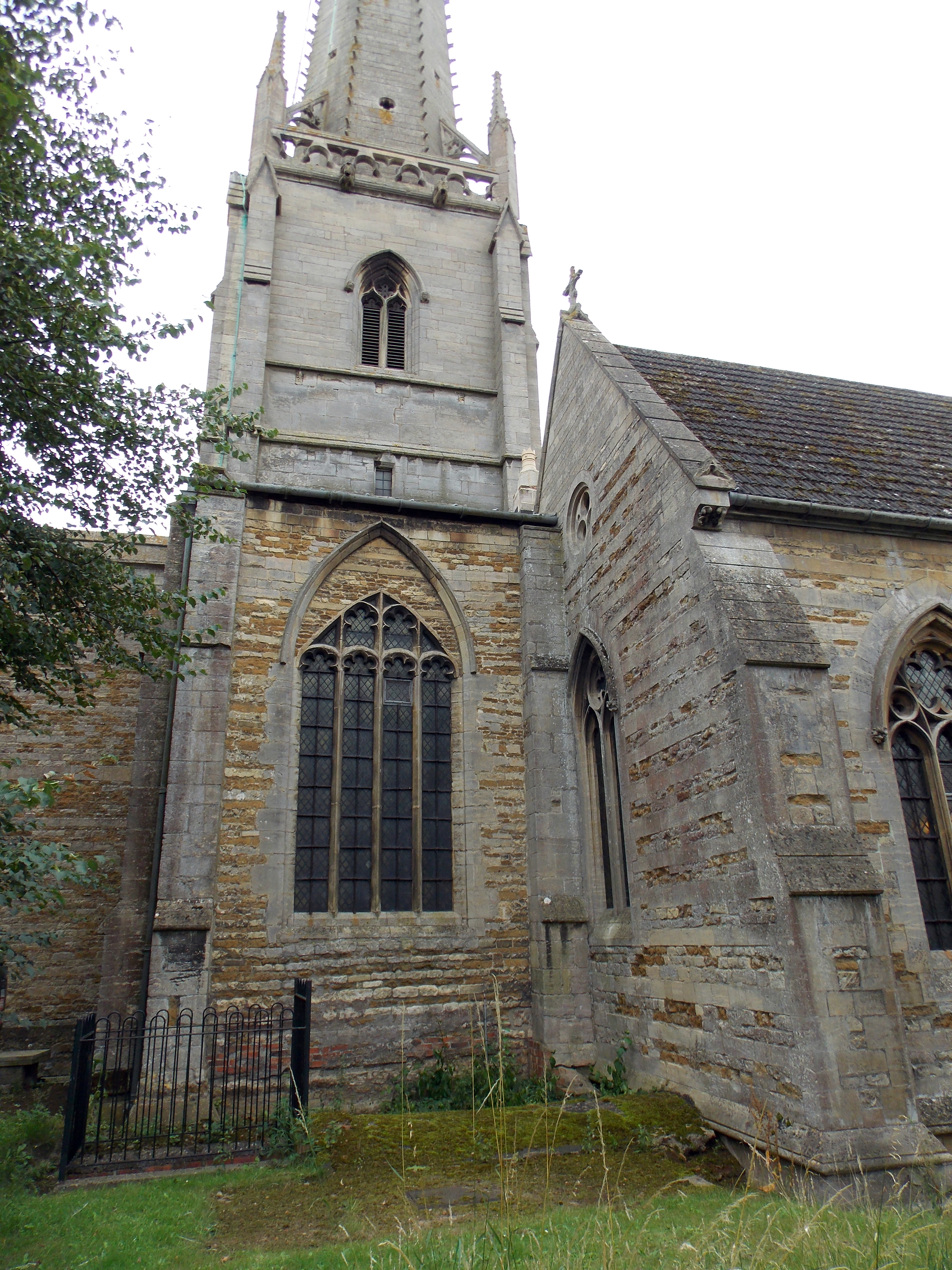 Central tower of St Vincent's parish church, Caythorpe, Lincolnshire, seen from the north